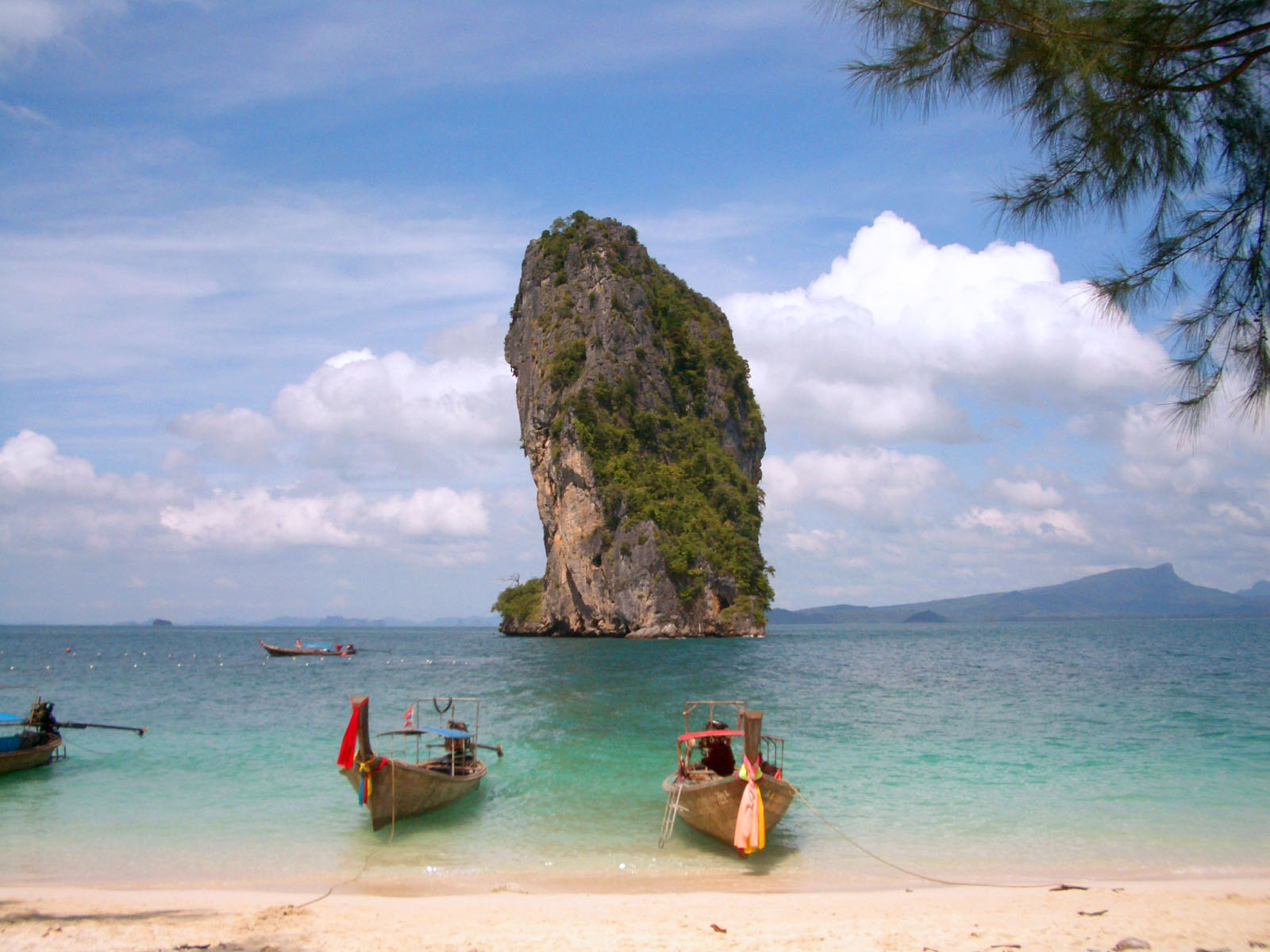 Poda island beach in Thailand.